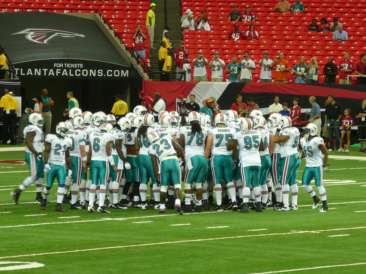 If used somewhere other than Wikipedia, Nelson, by name.